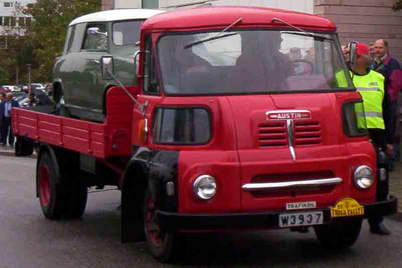 Austin A200FT Truck 1962